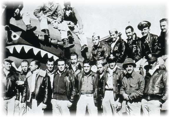 Original photo